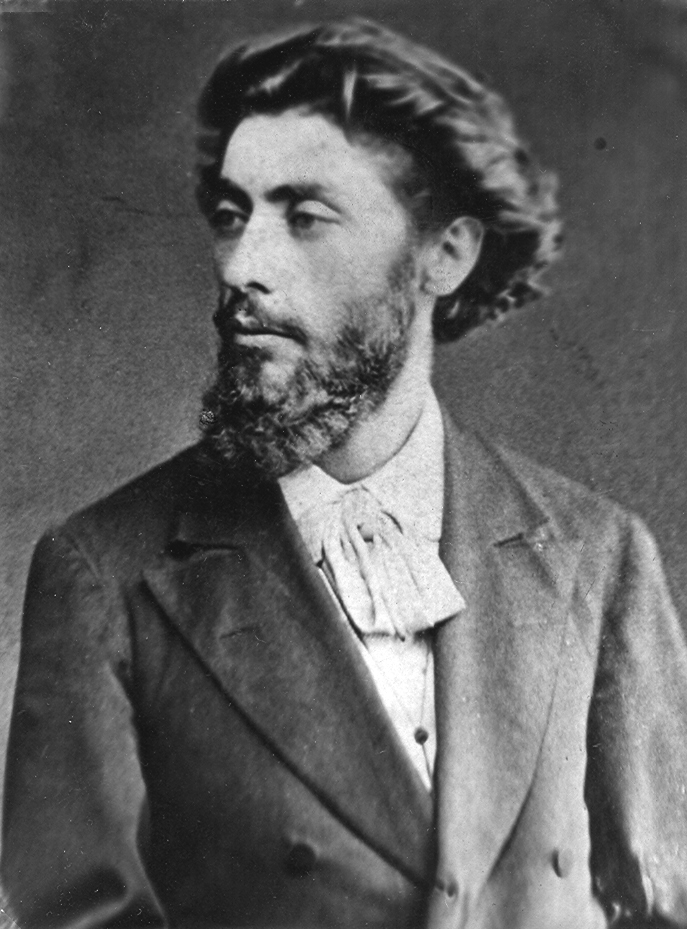 Armenian painter Gevork Bashindzhagian